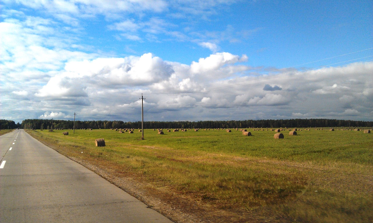 Dzyarzhynsk District, Belarus